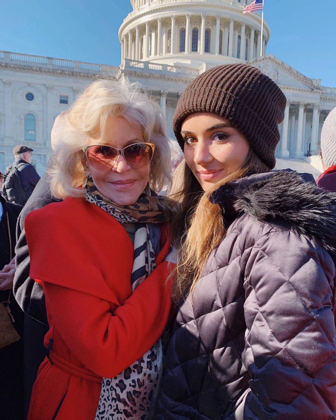 Activist Sophia Kianni (right) with actress Jane Fonda at 2019 Black Friday climate strike before the United States Capitol building. Comment by SophiaKianni 2020-02-22 says: released under